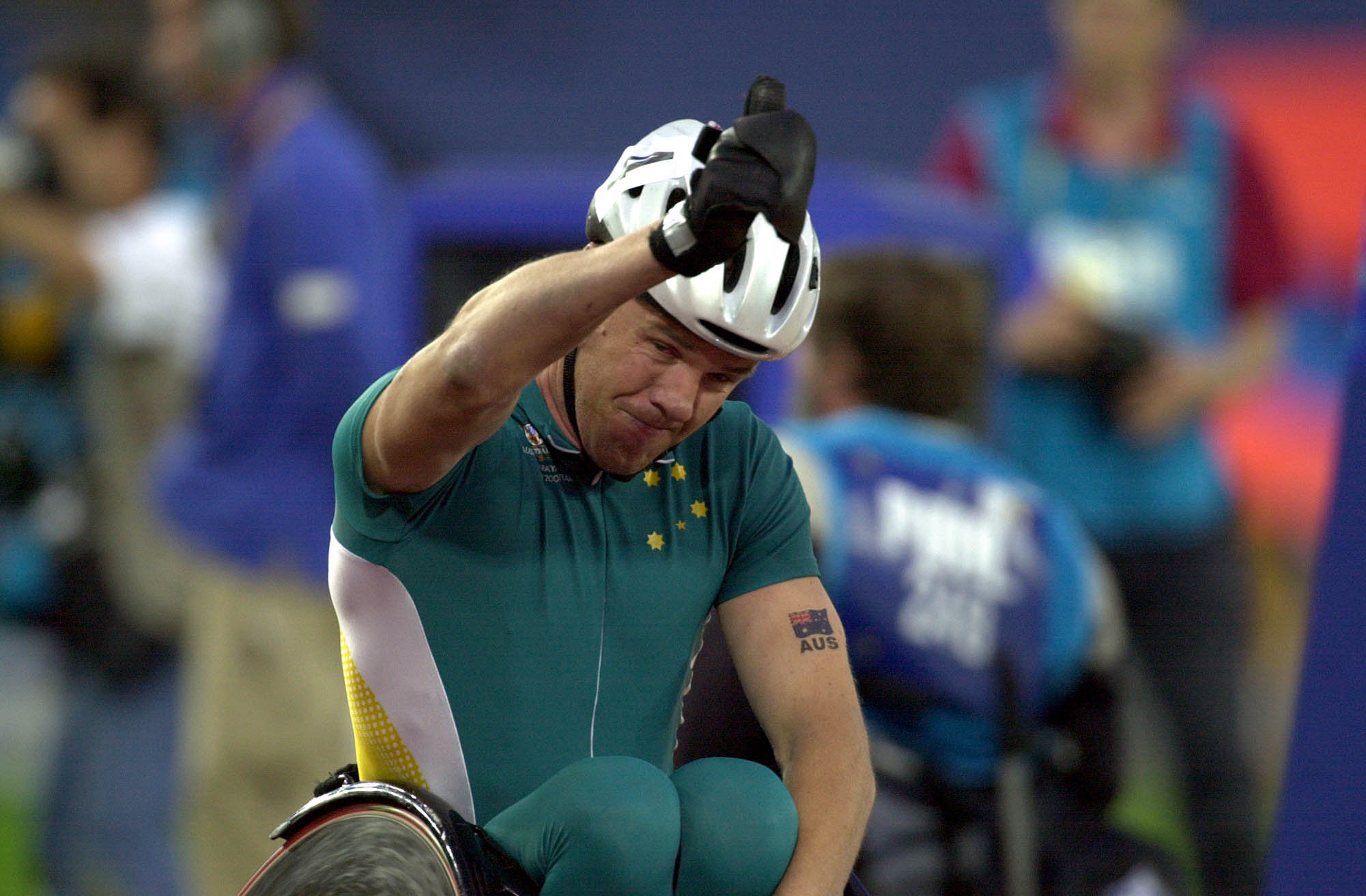 Australian wheelchair racing athlete Greg Smith gives the crowd a "thumbs up" at the 800 m T52 final at the 2000 Sydney Paralympic Games, Day 04. Smith won gold in this event.